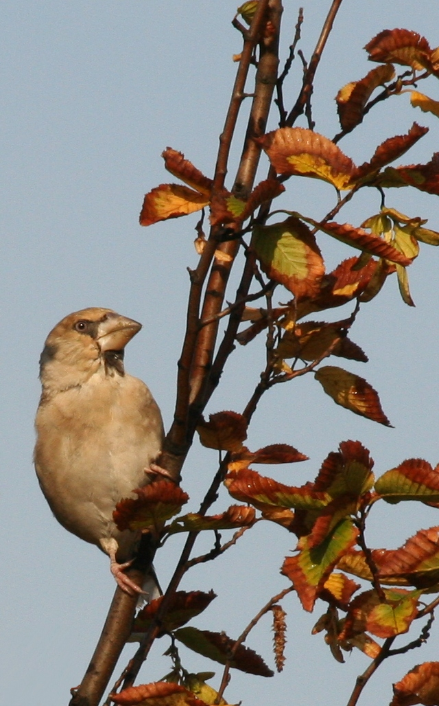 Hawfinch